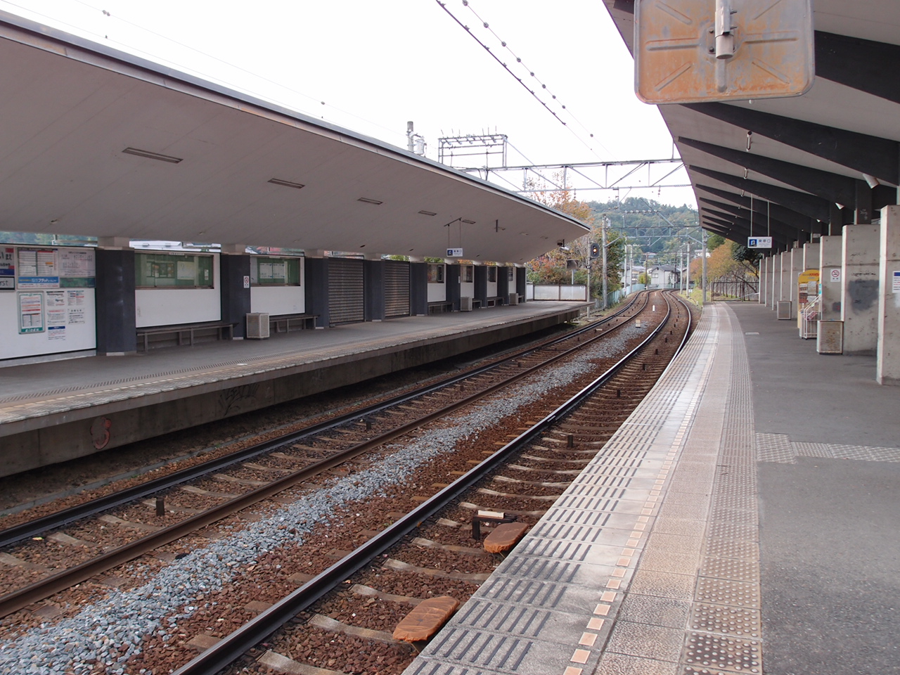 The near platform is bound for Demachiyanagi. Eizan Electric Railway, Kyoto, Japan.